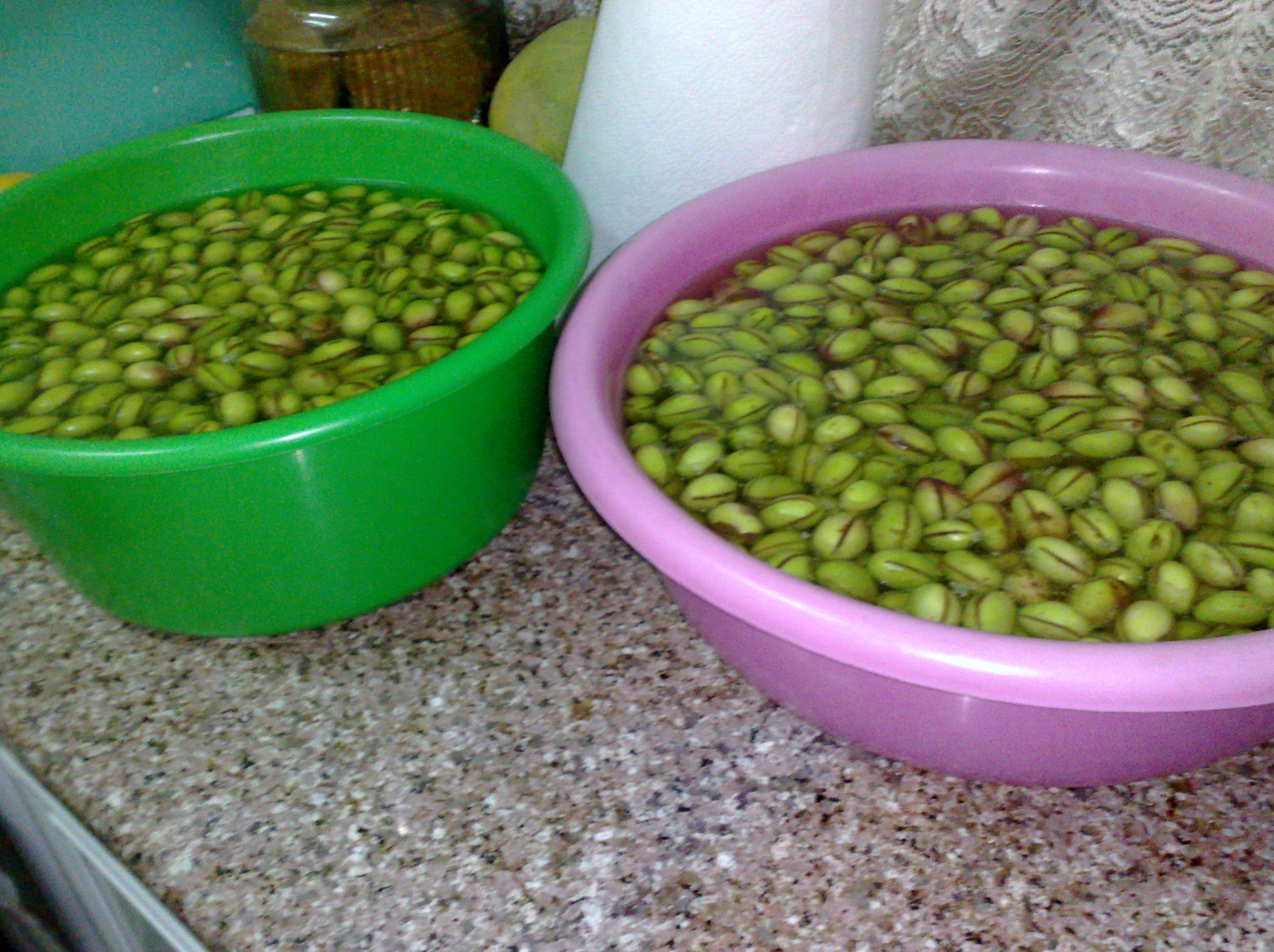 Olive fruits being prepared for picking.